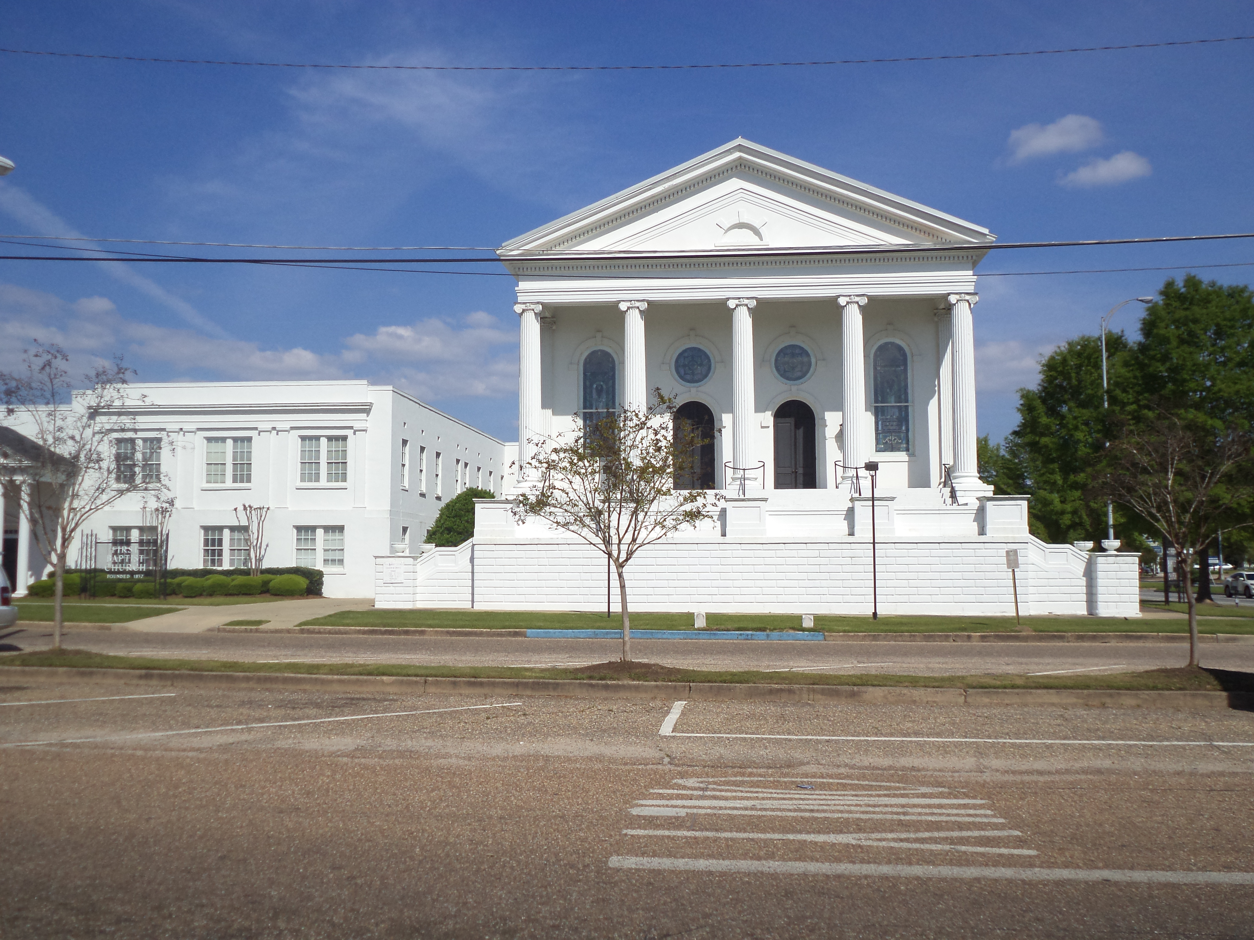 First Baptist Church of Eufaula, 125 South Randolph St., Eufaula, Barbour County, Alabama